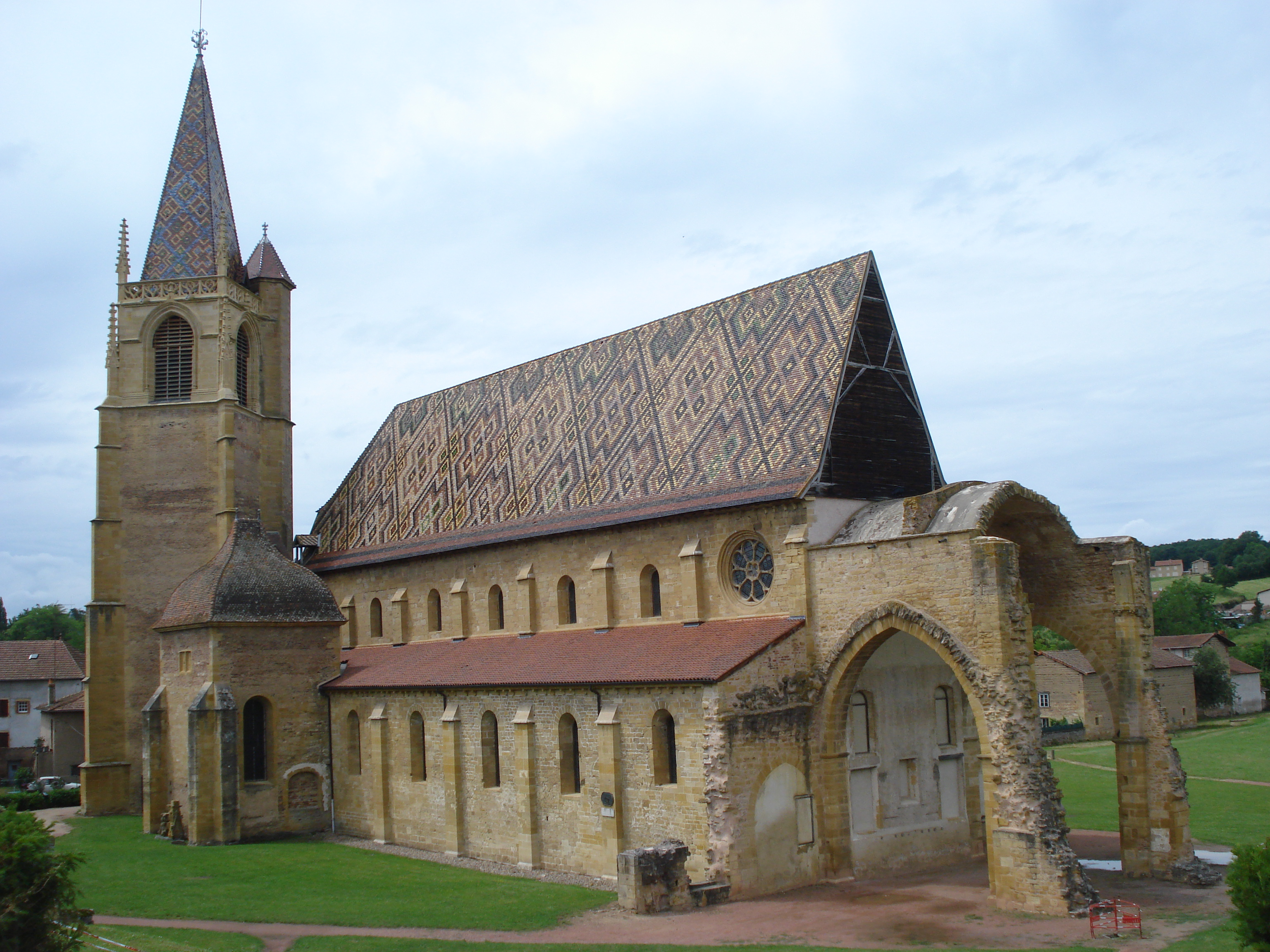 La Bénisson-Dieu (Loire, Fr), church seen from south-east. .